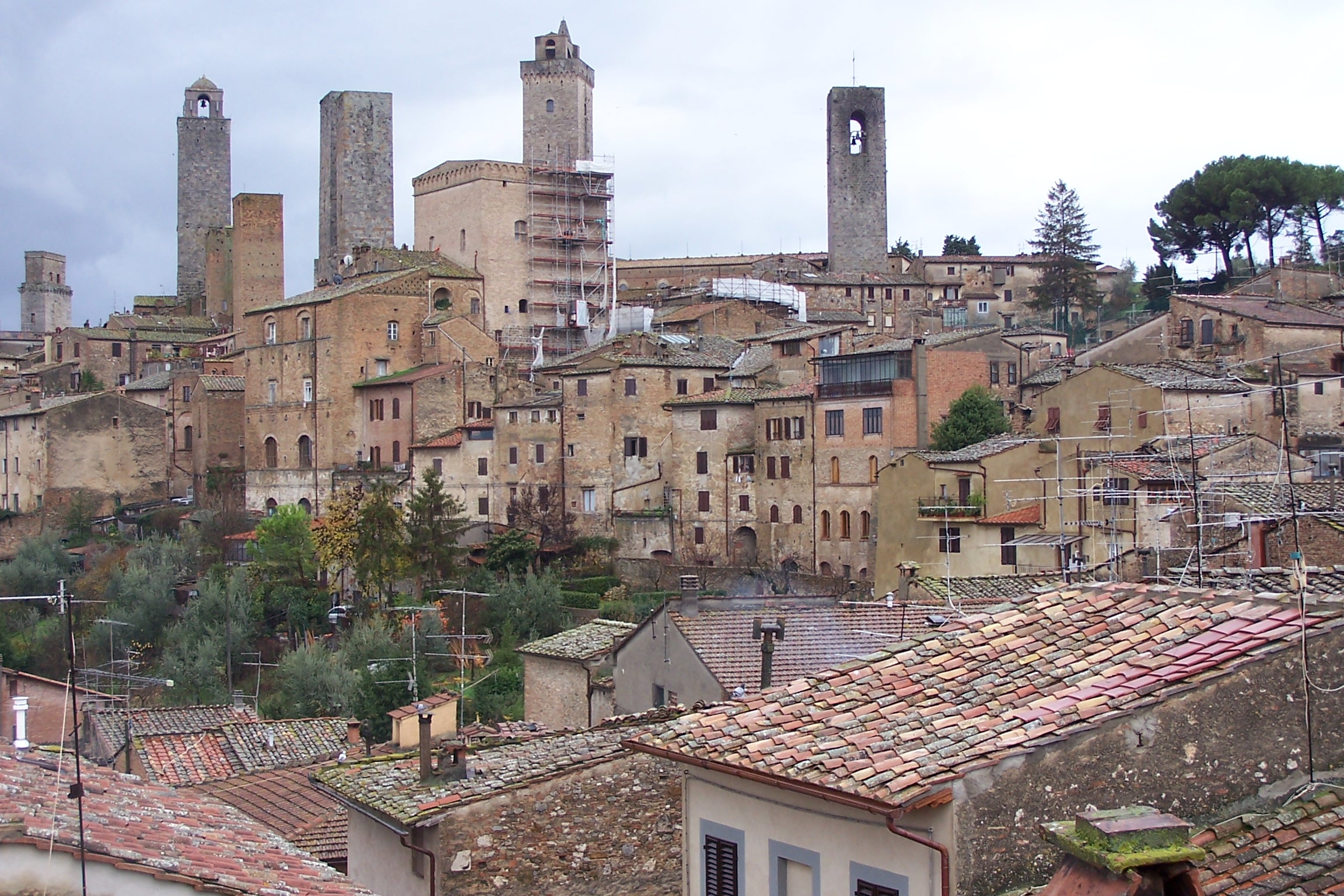 Towers of the medieval town of San Gimignano, Italy. Picture taken in November 2003.